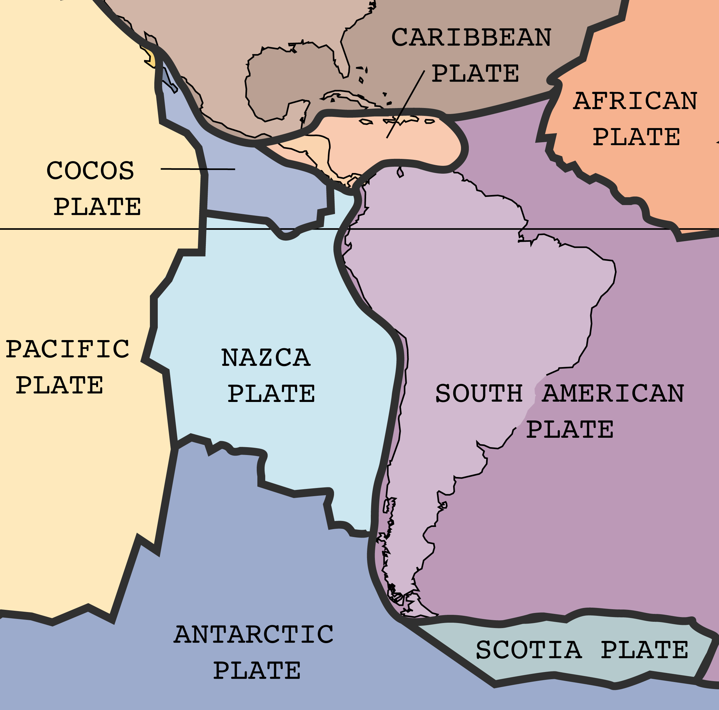 The key principle of plate tectonics is that the lithosphere exists as separate and distinct tectonic plates, which float on the fluid-like (visco-elastic solid) asthenosphere. The relative fluidity of the asthenosphere allows the tectonic plates to undergo motion in different directions. This map shows 15 of the largest plates. Note that the Indo-Australian Plate may be breaking apart into the Indian and Australian plates, which are shown separately on this map.